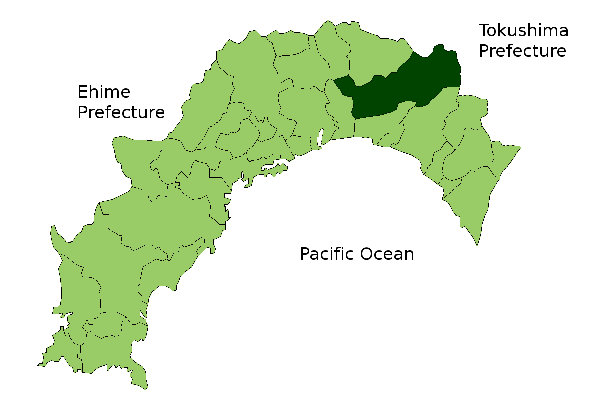 Map of Kochi Prefecture highlighting Kami city. Borders of map as of October, 2006. (blank map used from [1]) See also Image:KochiMapCurrent.png